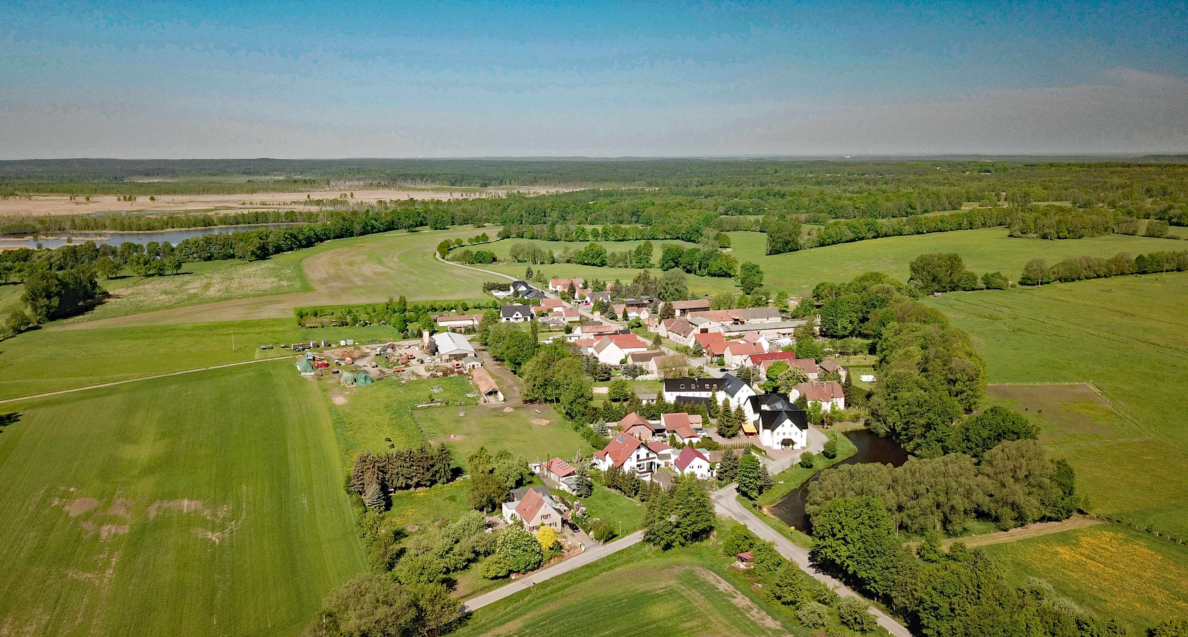 Neudorf Klösterlich (Wittichenau, Saxony, Germany) Hornjoserbsce: Powětrowy wobraz Noweje Wsy pola Kulowa z Dubrjenskim bahnom w pozadku